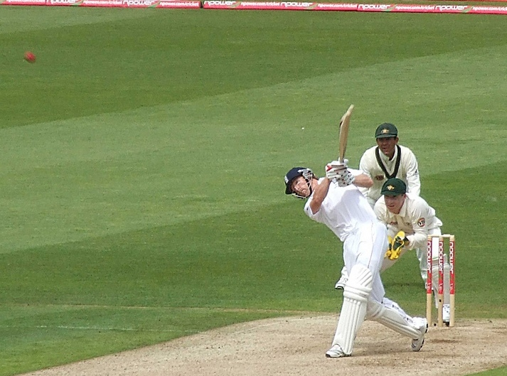 Collingwood 'GOES' for it. 4 all the way.